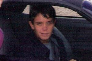 Photo of Lee Hendrie taken by User:Stew jones at Bodymoore Heath training ground in 2000. Originally uploaded under File:Hendrie, Lee.jpg at 20:15, 1 September 2009 but was later overridden on 17:47, 4 August 2012.